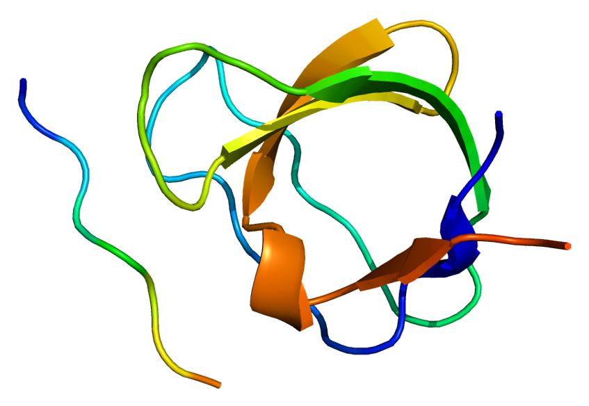 Structure of the CD2AP protein. Based on PyMOL rendering of PDB 2j6f.